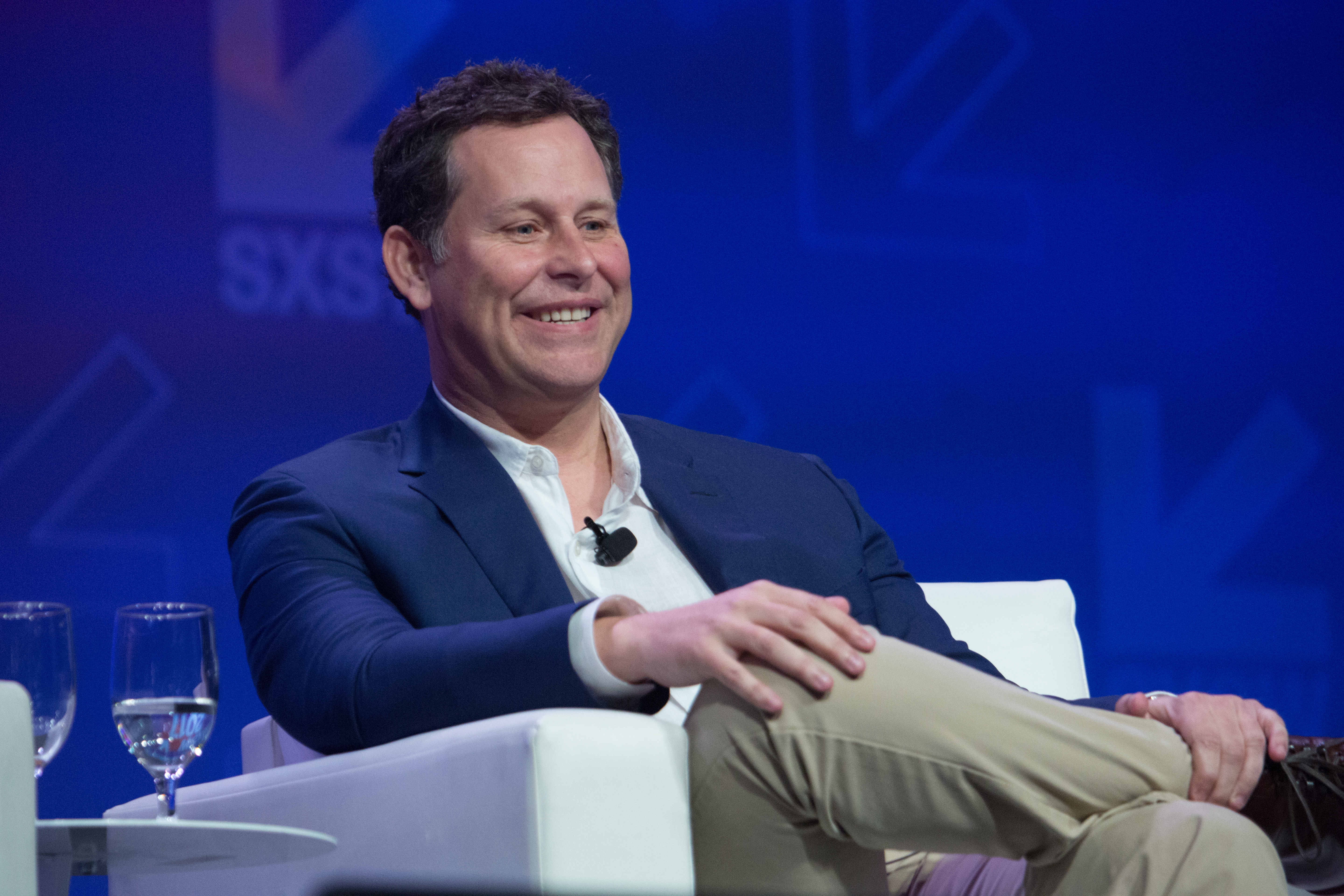 From the session "Make Your Ideas Matter" Photo: Ståle Grut / NRKbeta Session description: The world runs on ideas. Whether it’s a new app or a lifesaving medication, new ideas can drive our collective progress. But which ideas are worthy and what are the best ways to advance them? Scott Cook came up with the idea for Quicken while watching his wife struggle to balance the checkbook at their kitchen table. Mike Maples has been an early investor in some of the biggest ideas of our time – including Twitter, Twitch.tv and Chegg. Join a conversation with these experts to learn new methods to drive ideation, how to test ideas in more measurable ways and advice to effectively communicate your ideas to decision-makers.